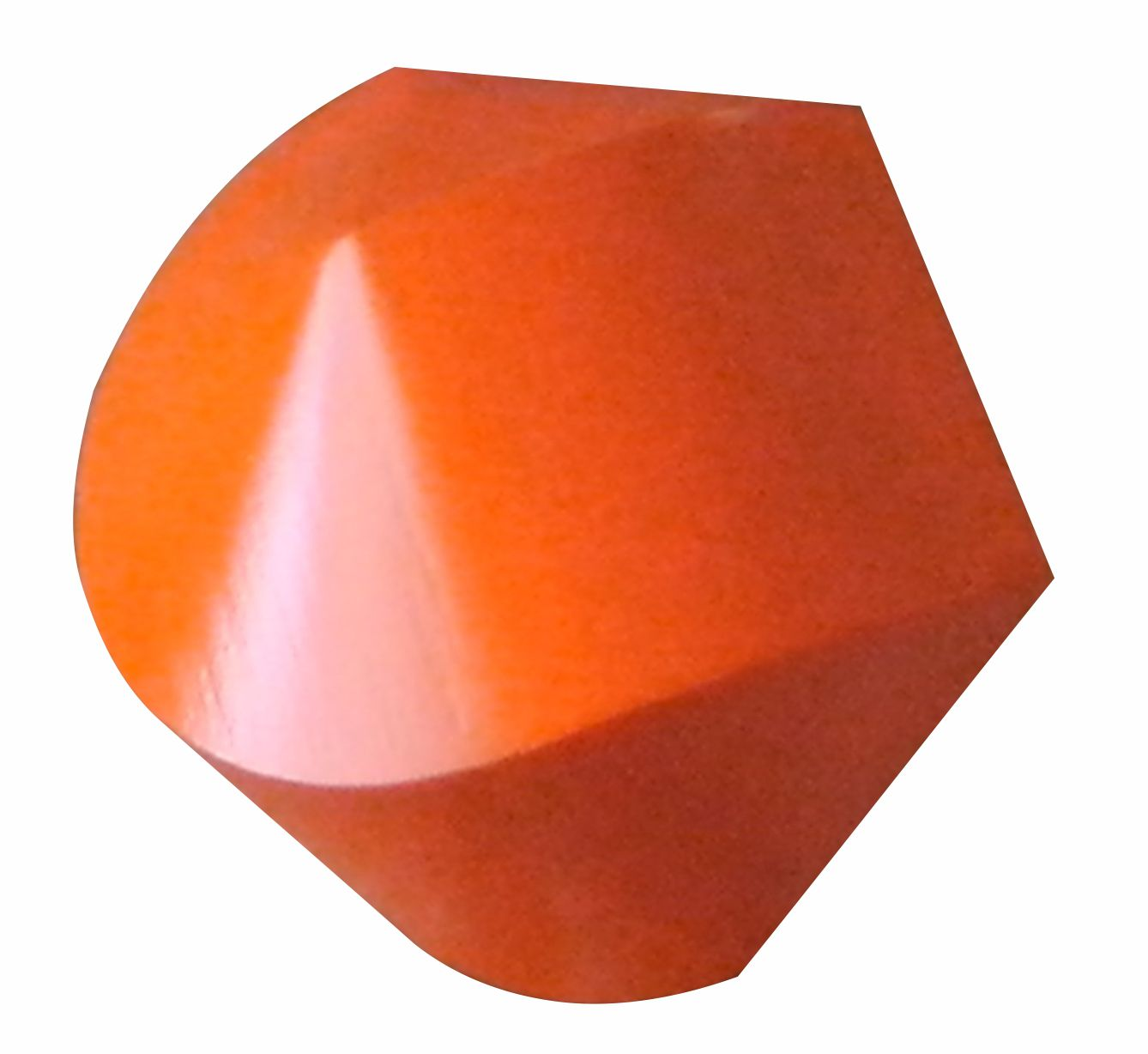 3D printed prime hexa-sphericon.